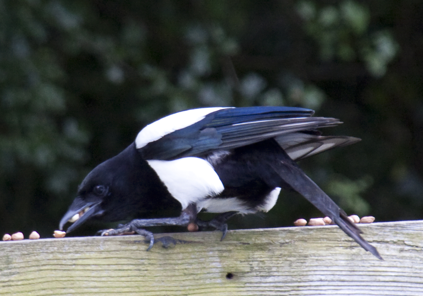 With their white black and blue plumage magpies are quite attractive birds. Although very common I have never managed to get a good photo of a magpie.